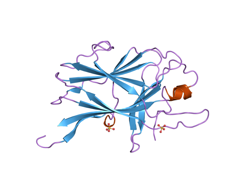 Cartoon representation of the molecular structure of protein registered with 2bba code.